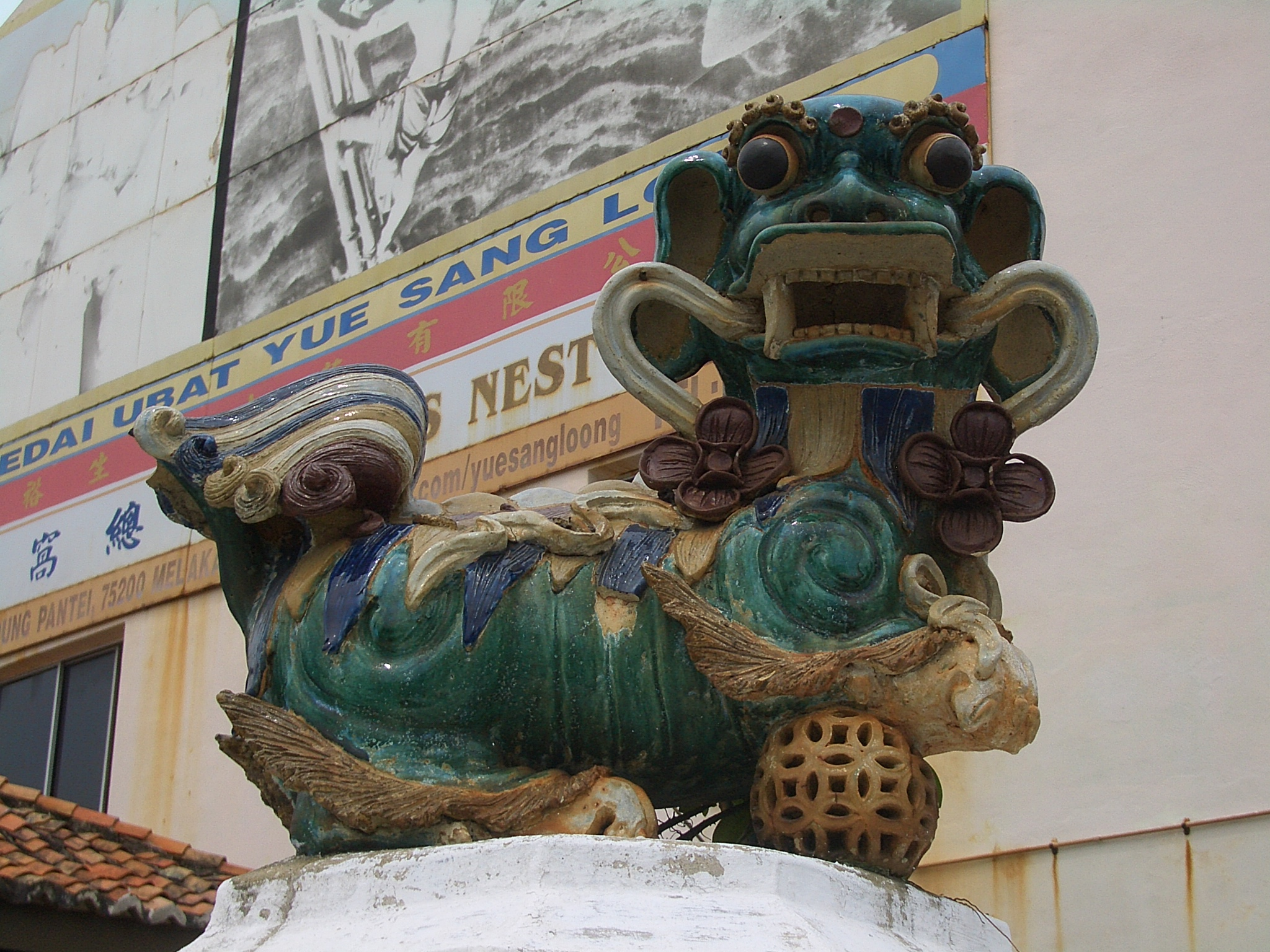 Lions decorating the gate in the fence around Cheng Hoon Teng (Pinyin: Qing Yun Ting) Temple, a small Buddhist temple located at 25 Jalan Tokong (25 Tokong Ave) in Melaka's Chinatown (Baru Cina)